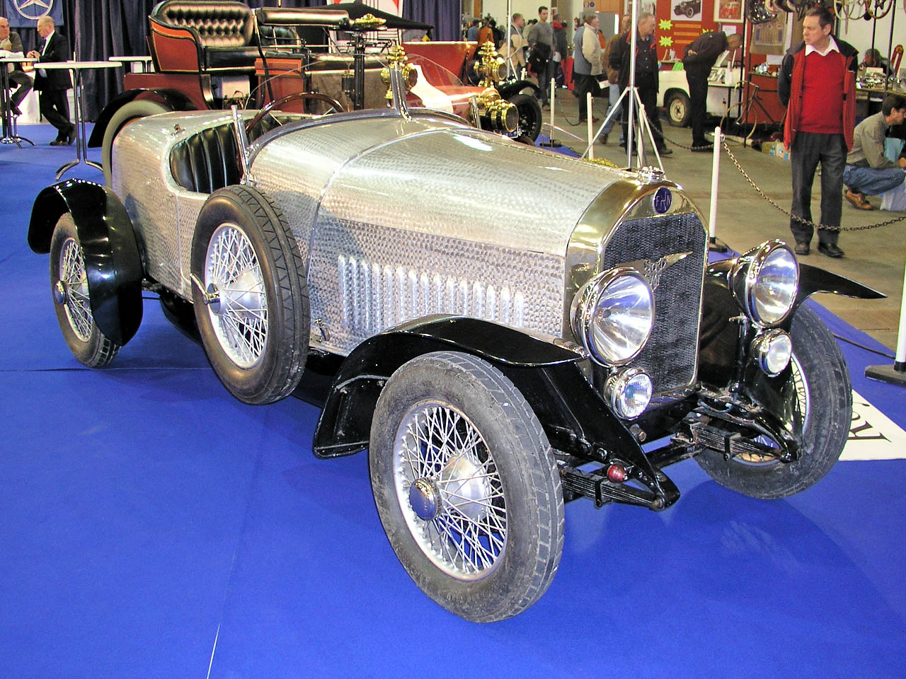 sports car with 1.3-litre 4-cylinder engine with overhead valves and special bodywork, made in Belgium by Fabrique Nationale d'Armes de Guerre; right front-side view